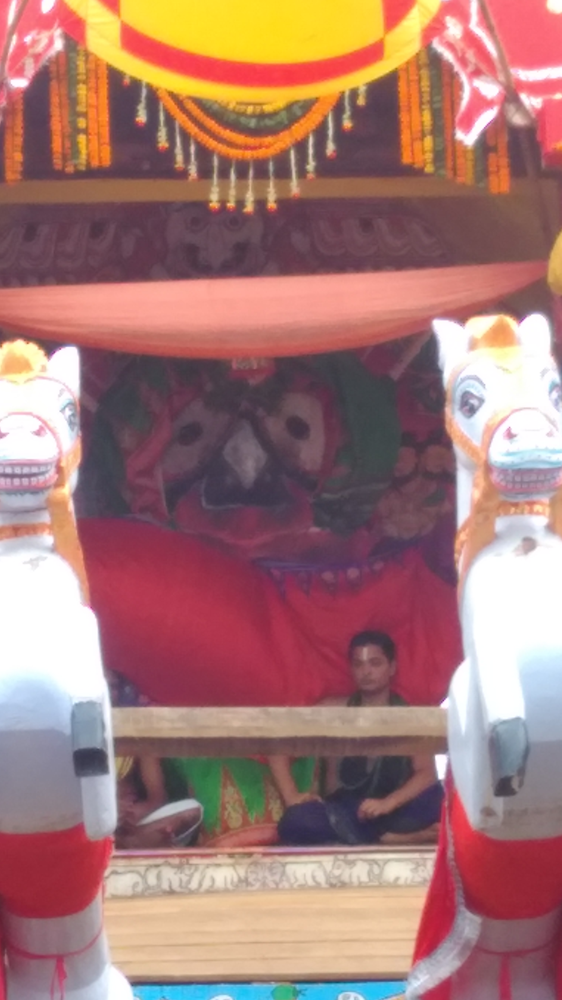 Lord Jagannath in Nandighosha ratha during Ratha jatra 2015.